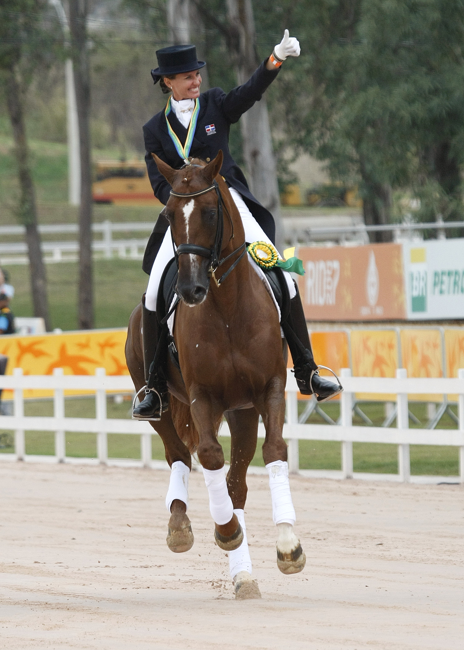 Yvonne Losos de Muñiz medalist Rio